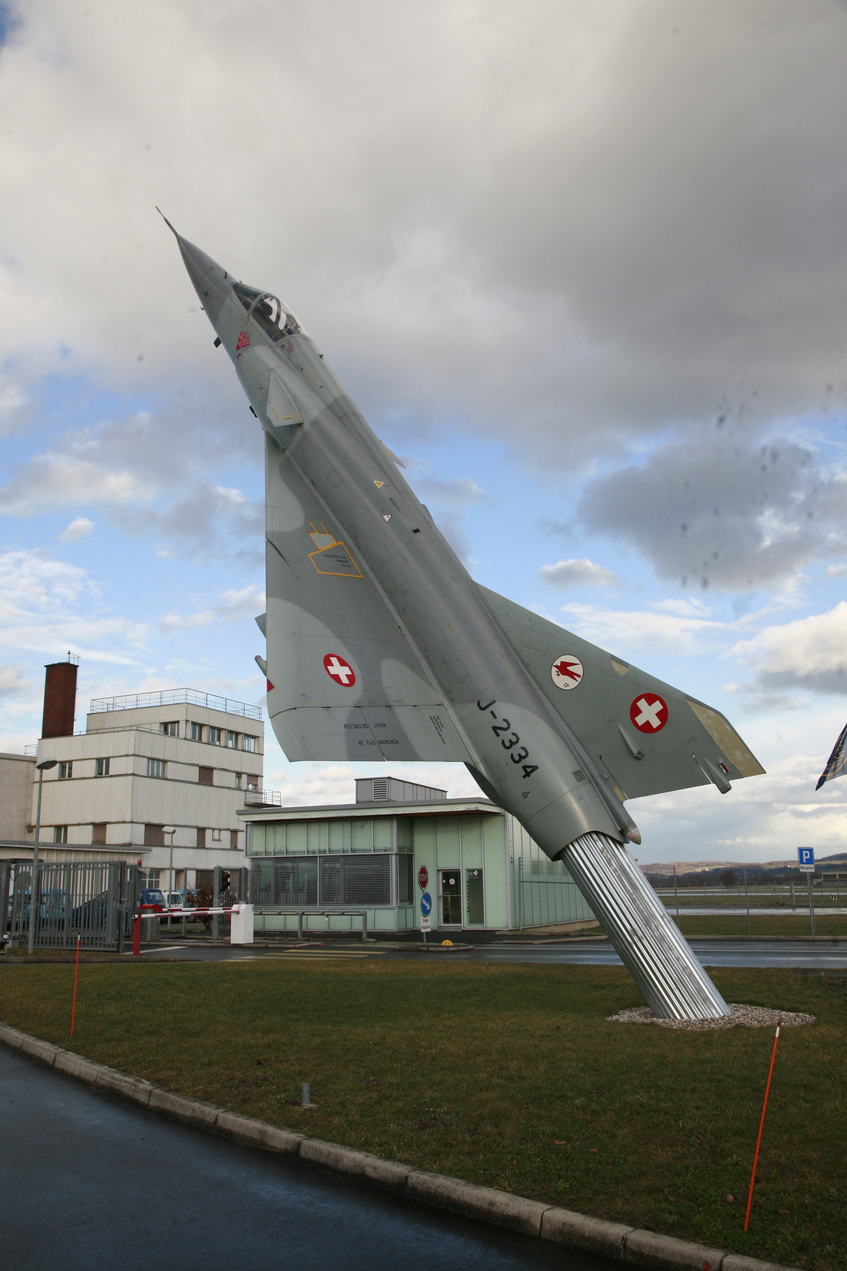 Dassault Mirage III of the Swiss Air Force, on display at Payerne Airbase.